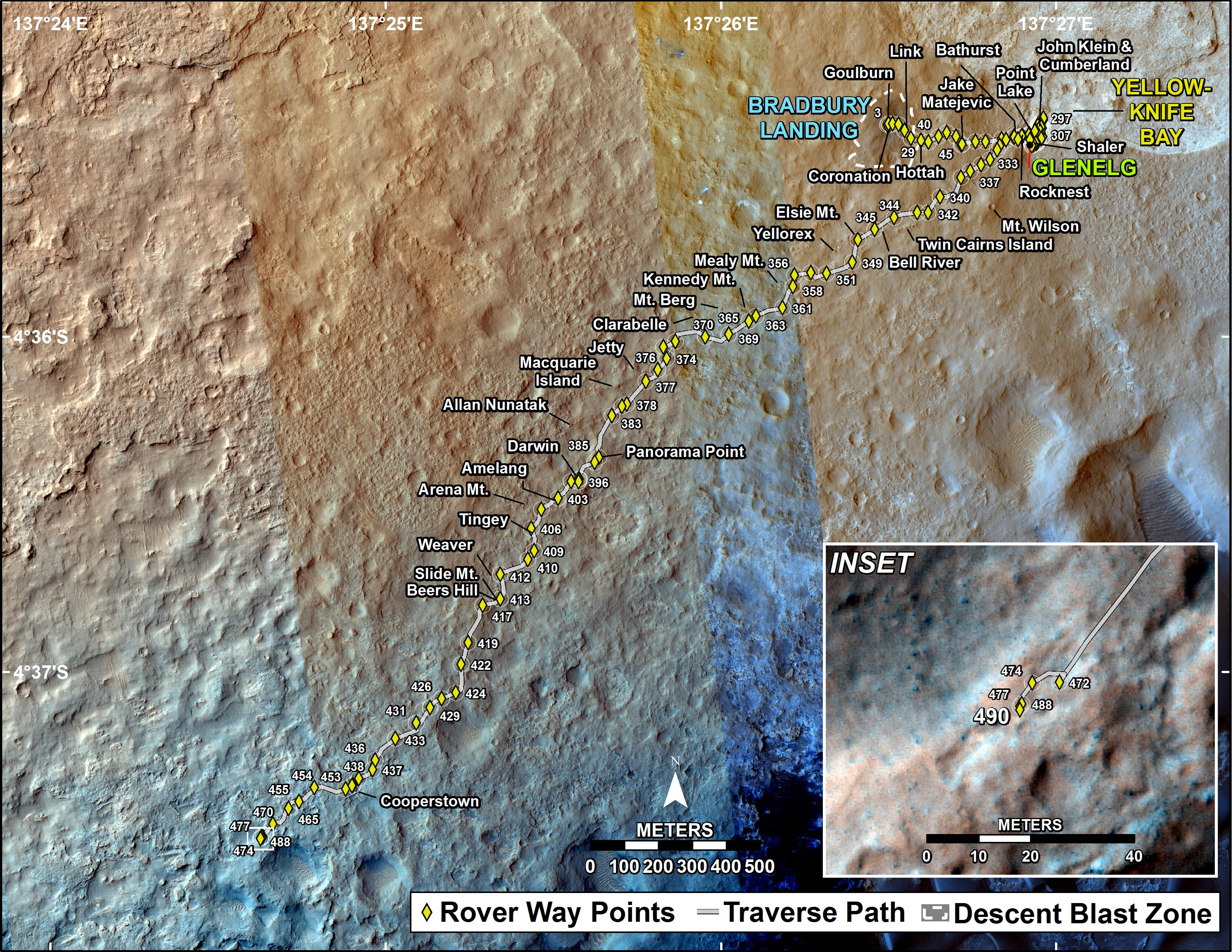 12.23.2013 Curiosity's Traverse Map Through Sol 490 This map shows the route driven by NASA's Mars rover Curiosity through the 490 Martian day, or sol, of the rover's mission on Mars (December 23, 2013). Numbering of the dots along the line indicate the sol number of each drive. North is up. The scale bar is 500 meters (1640.42 feet). From Sol 488 to Sol 490, Curiosity had driven a straight line distance of about 4.17 feet (1.27 meters). The base image from the map is from the High Resolution Imaging Science Experiment Camera (HiRISE) in NASA's Mars Reconnaissance Orbiter.